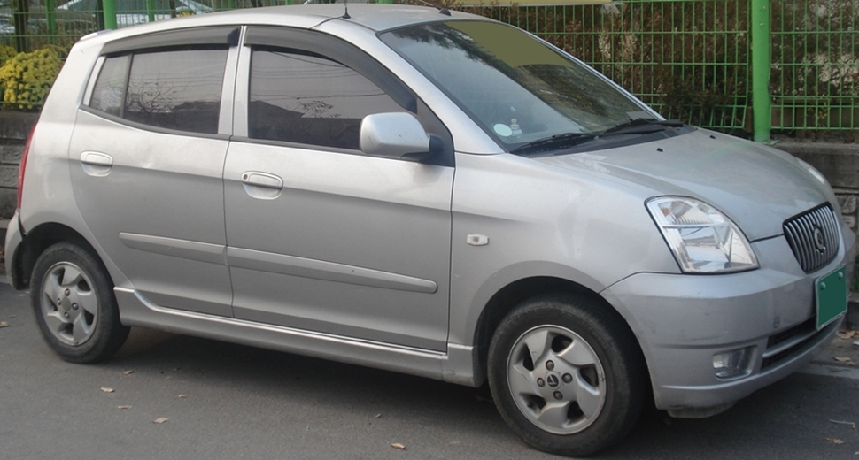 Kia Morning